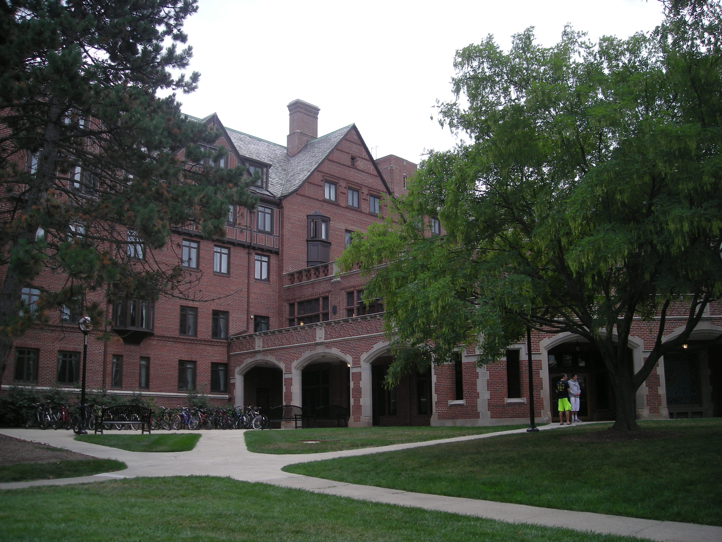 Stockwell Hall on the central campus of the University of Michigan in Ann Arbor, Michigan (United States).